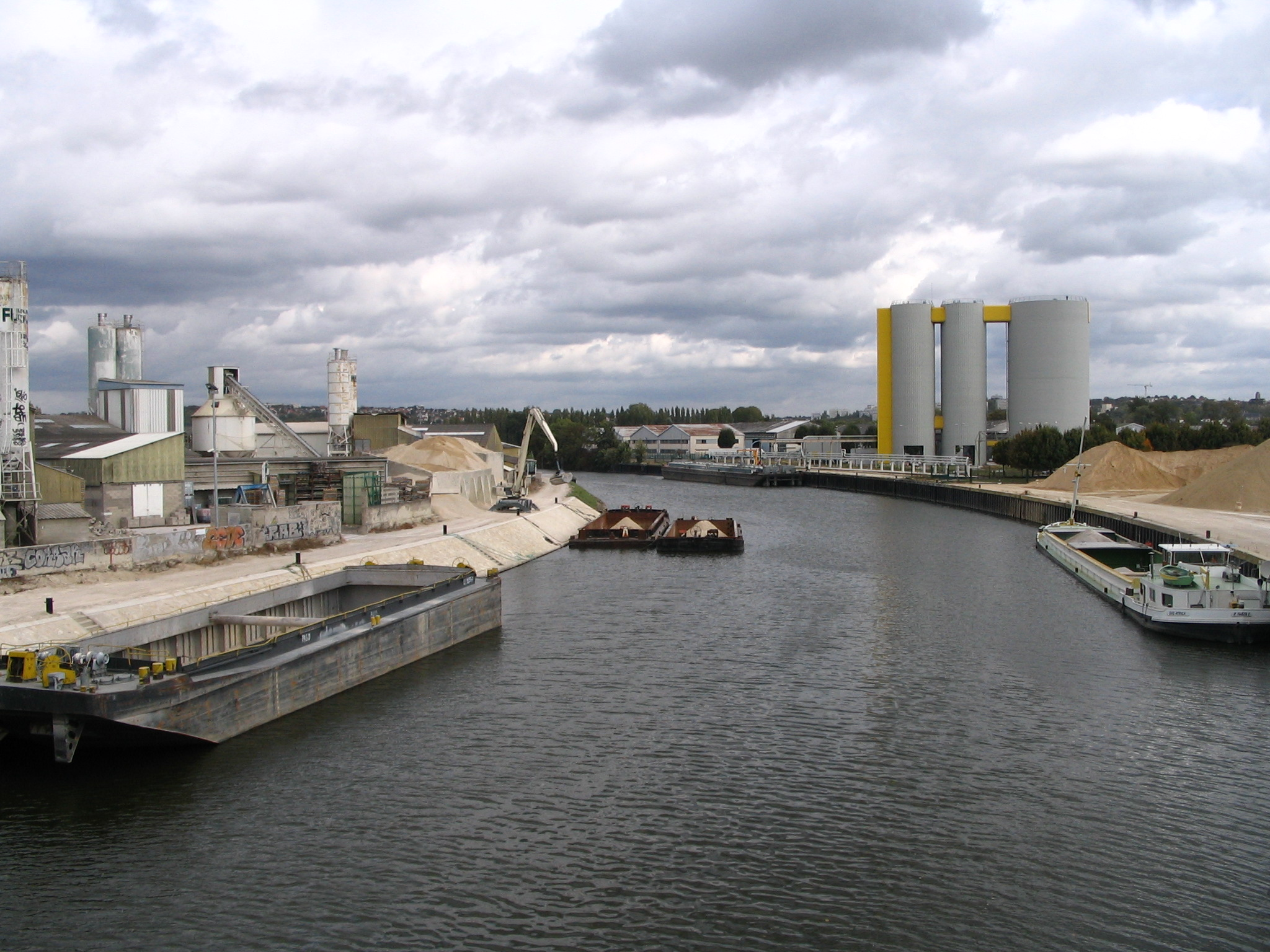 The port of Bonneuil-sur-Marne, Val-de-Marne, France, part of the Port Autonome de Paris.